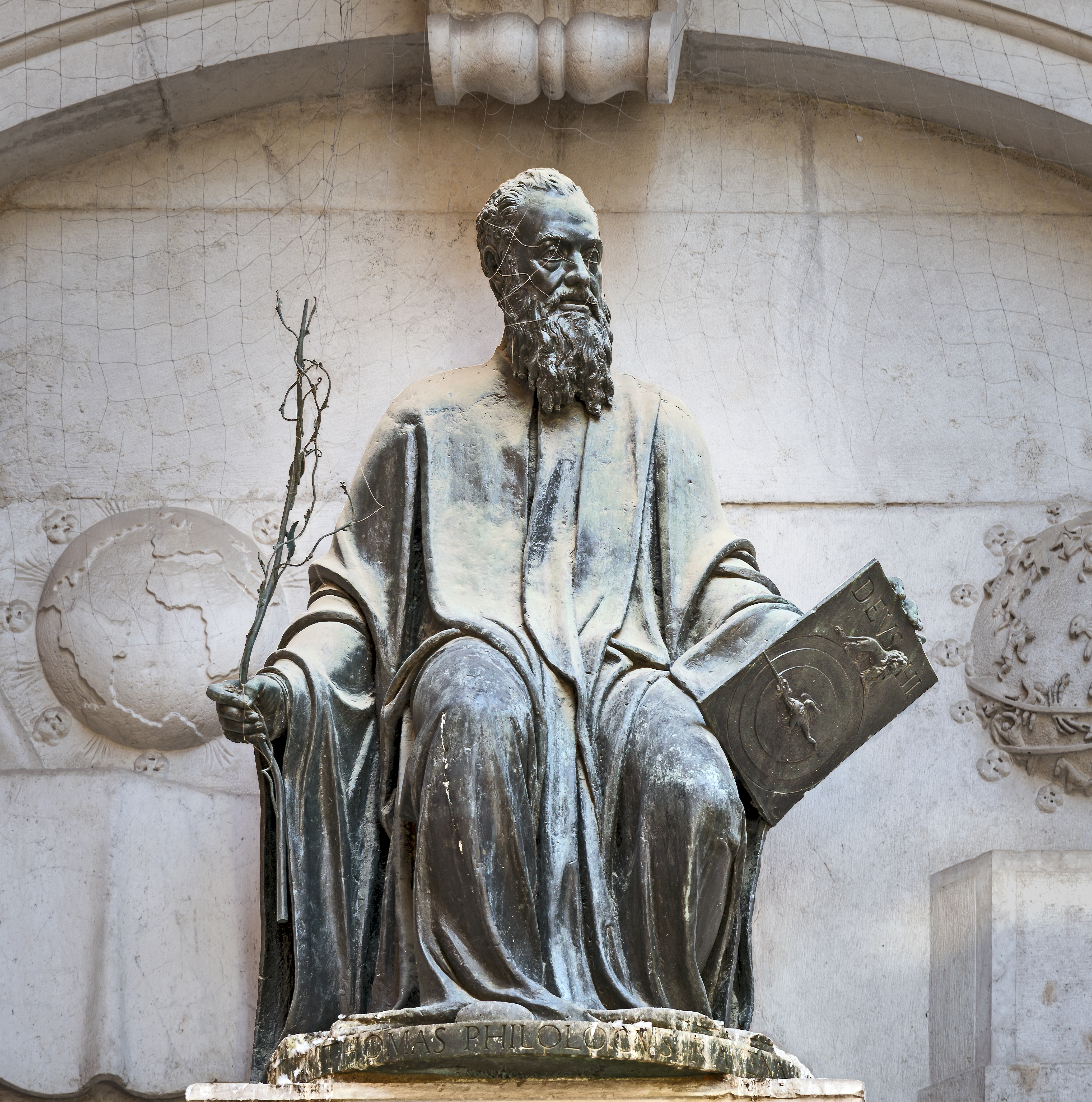 San Zulian, Venice. The bronze statue of Tommaso Rangone given to Jacopo Sansovino, in 1554. Tommaso Rangone (Thomas Philologus) is philologist and pysician who paid for the facade of the church, in exchange for making it into a monument to his own glory.